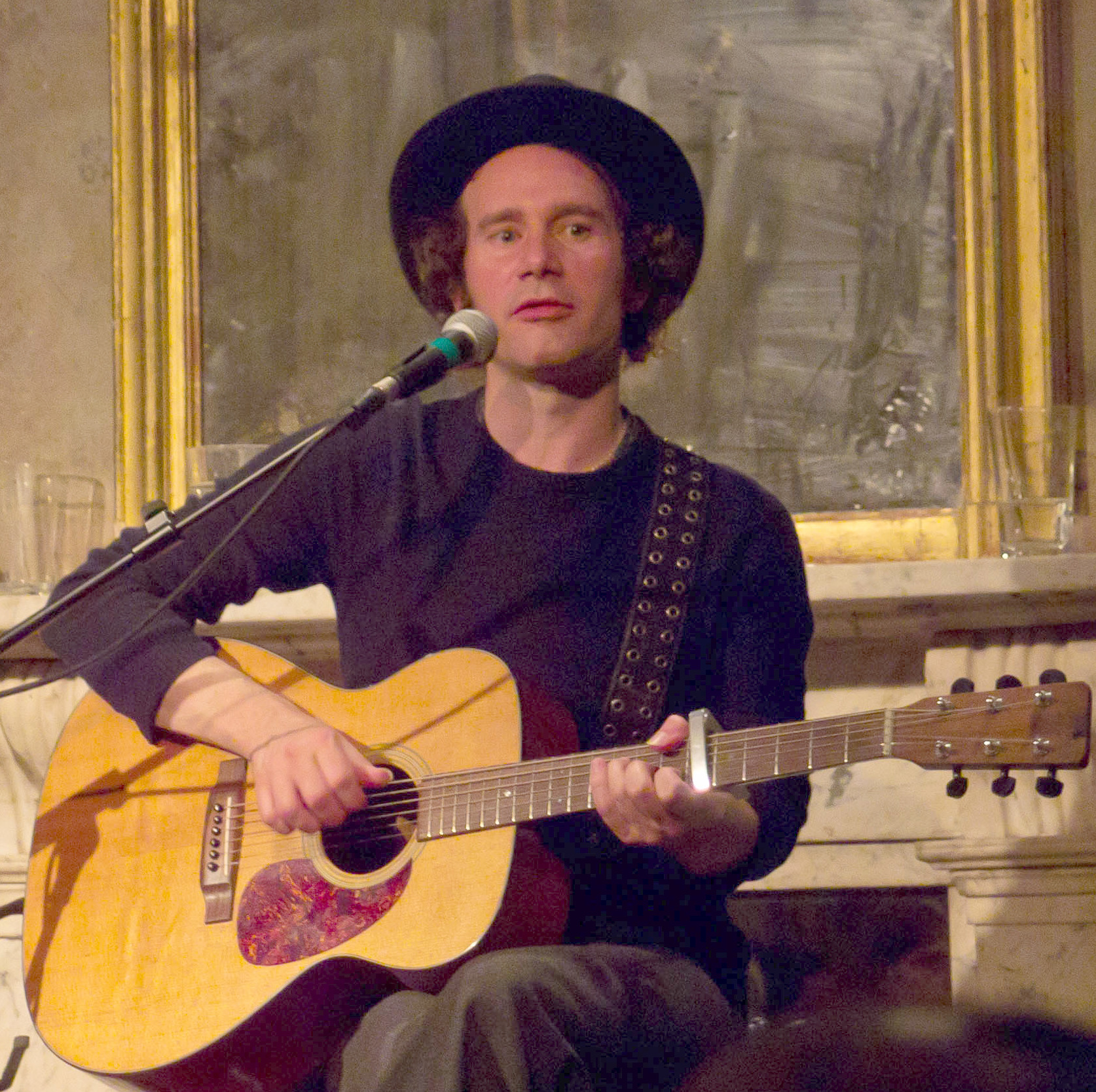 Patrick Duff, performing in Islington (London) in 2011